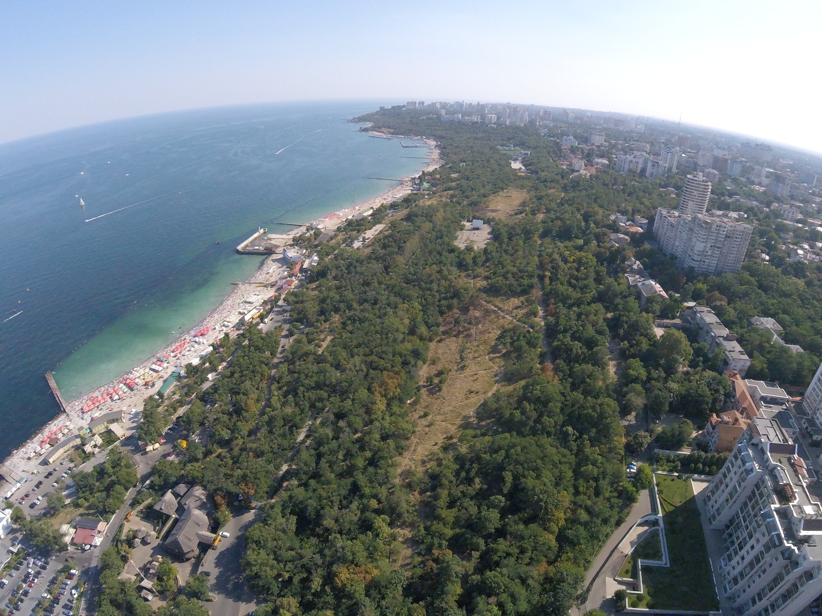 Plages at the city of Odessa, Ukraine